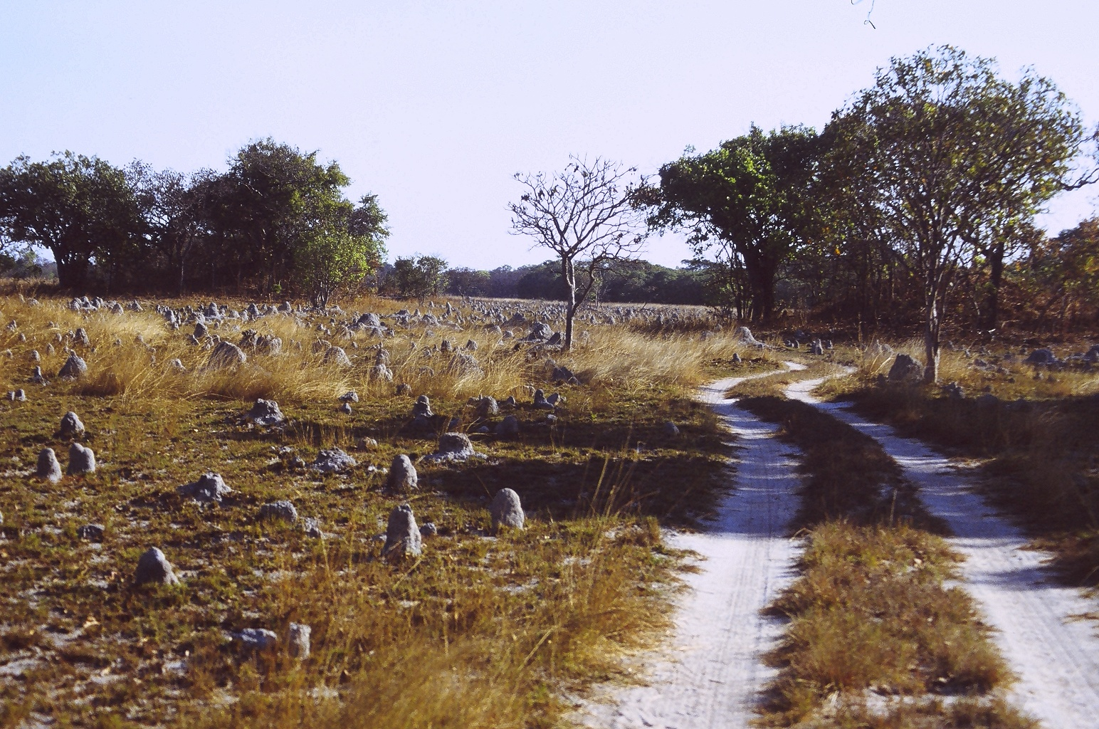 Termite mounds in Kasanka National Park, Zambia, in the dry season